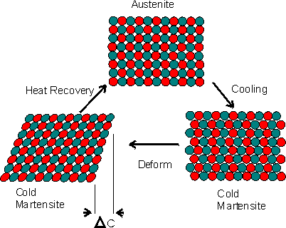 he properties of nitinol depend upon its dynamic heat sensitive crystalline structure. When Nitinol is deformed in the martensite phase, the crystalline structure is not damaged. Instead the crystal structure transforms moving in a singular crystalline direction. When heated the material returns to its "remembered" lest stress austenite structure.